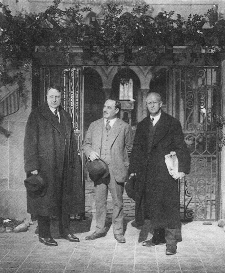 American newspaper publisher William Randolph Hearst, film director Robert G. Vignola, and Arthur Brisbane, outside of the International studio in New York where Vignola was filming The World and His Wife (1920), page 3126 of the April 3